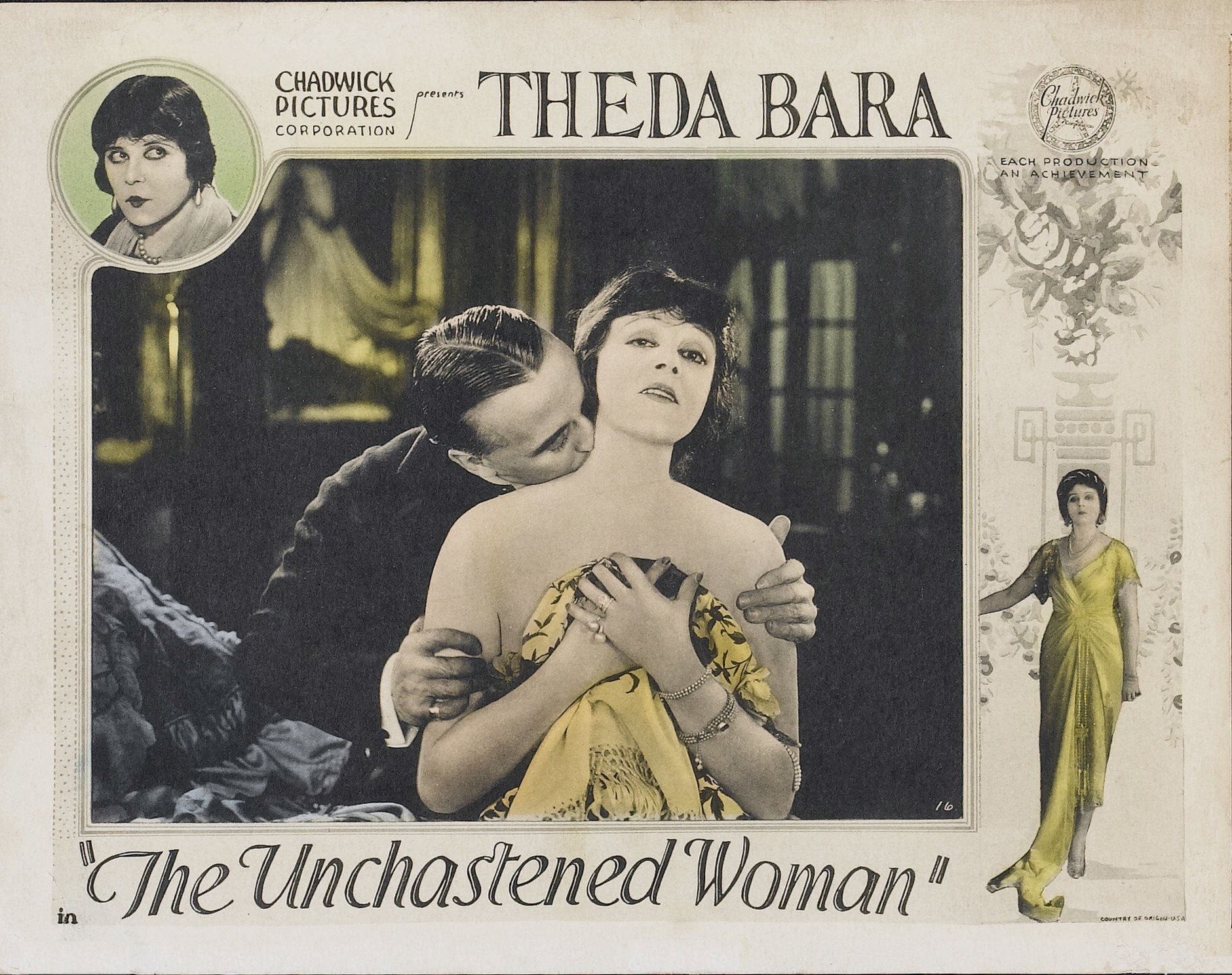 Lobby card for the American drama film The Unchastened Woman (1925) There are no copyright marks on the item. At bottom right is Country of origin USA.